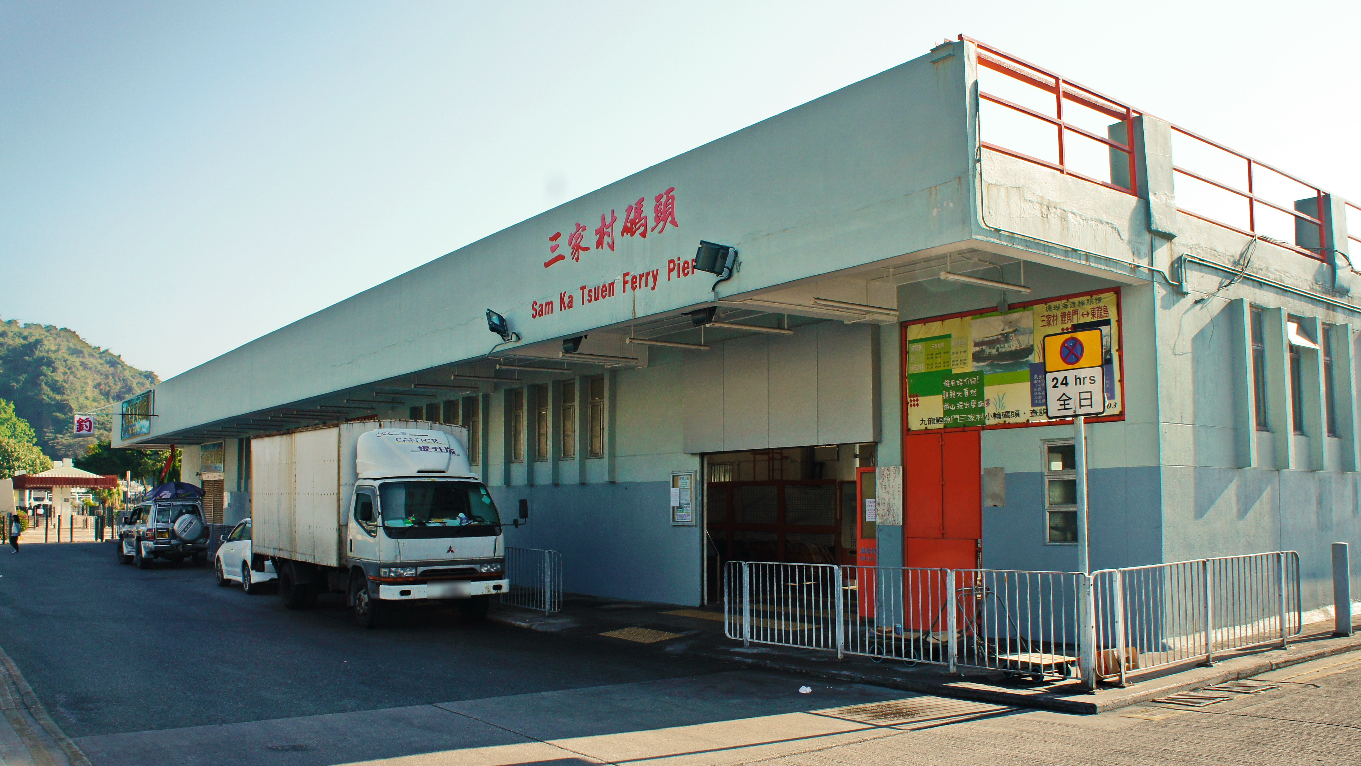 Sam Ka Tsuen Ferry Pier, Hong Kong.